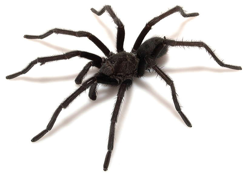 Aphonopelma joshua male